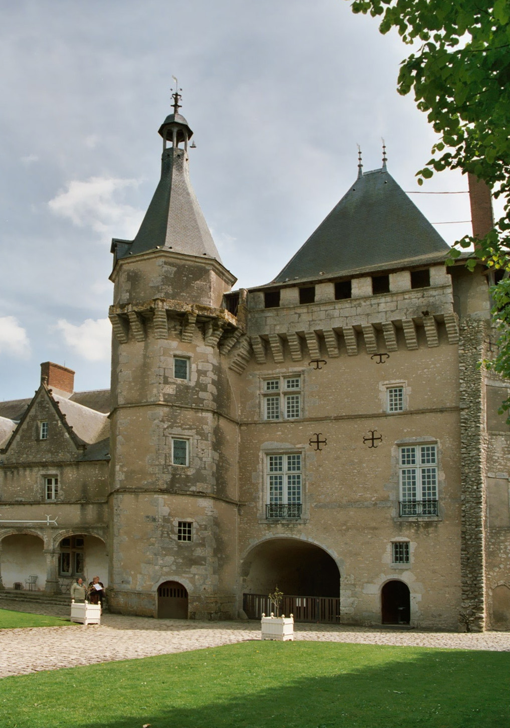 France : Castle of Talcy (Loir et Cher)